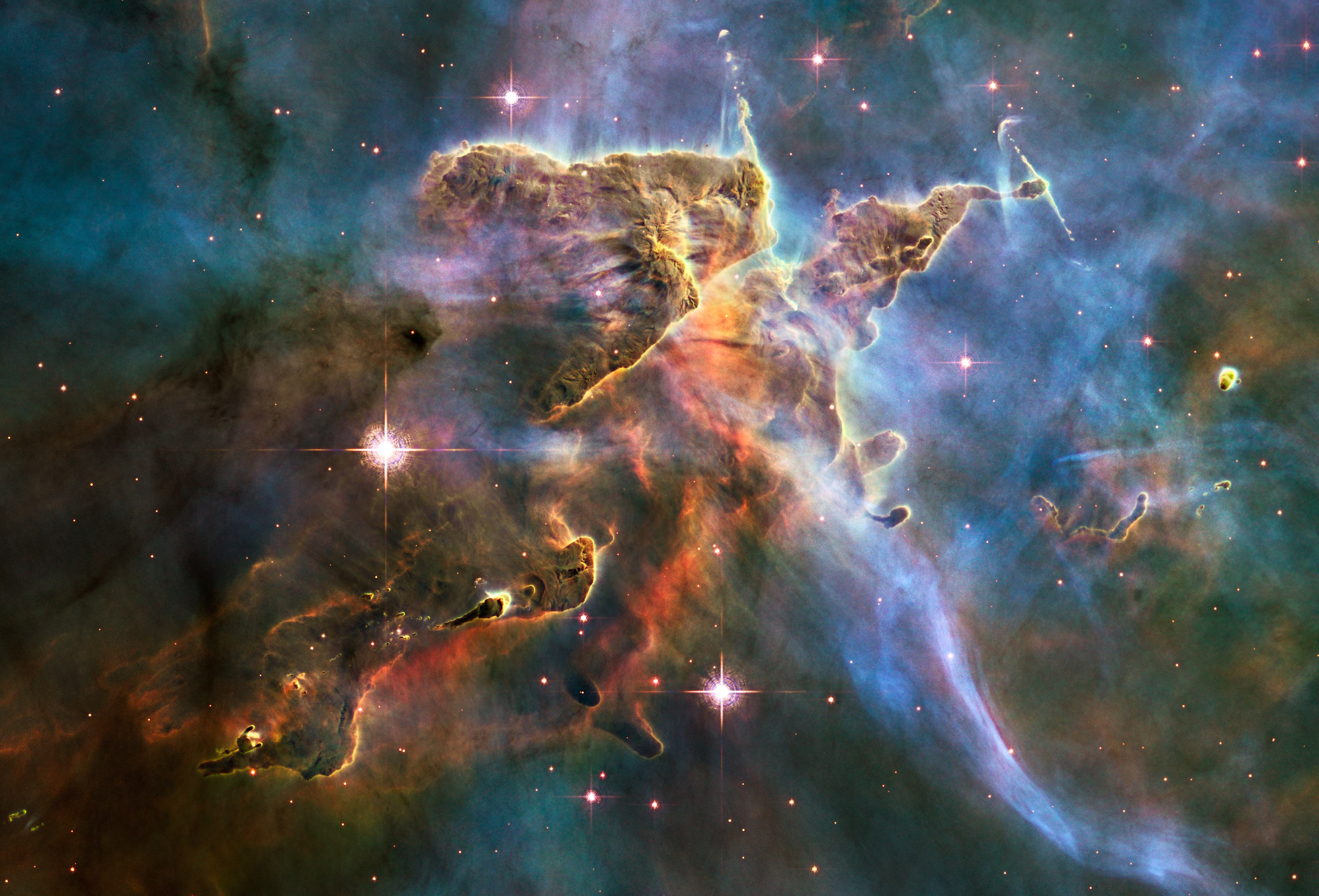 The NASA/ESA Hubble Space Telescope captured this billowing cloud of cold interstellar gas and dust rising from a tempestuous stellar nursery located in the Carina Nebula, 7500 light-years away in the southern constellation of Carina. This pillar of dust and gas serves as an incubator for new stars and is teeming with new star-forming activity. Hot, young stars erode and sculpt the clouds into this fantasy landscape by sending out thick stellar winds and scorching ultraviolet radiation. The low density regions of the nebula are shredded while the denser parts resist erosion and remain as thick pillars. In the dark, cold interiors of these columns new stars continue to form. In the process of star formation, a disc around the proto-star slowly accretes onto the star's surface. Part of the material is ejected along jets perpendicular to the accretion disc. The jets have speeds of several hundreds of miles per second. As these jets plough into the surrounding nebula, they create small, glowing patches of nebulosity, called Herbig-Haro (HH) objects. Long streamers of gas can be seen shooting in opposite directions off the pedestal on the upper right-hand side of the image. Another pair of jets is visible in a peak near the top-centre of the image. These jets (known as HH 901 and HH 902, respectively) are common signatures of the births of new stars. This image celebrates the 20th anniversary of Hubble's launch and deployment into an orbit around Earth. Hubble's Wide Field Camera 3 observed the pillar on 1-2 February 2010. The colours in this composite image correspond to the glow of oxygen (blue), hydrogen and nitrogen (green) and sulphur (red).